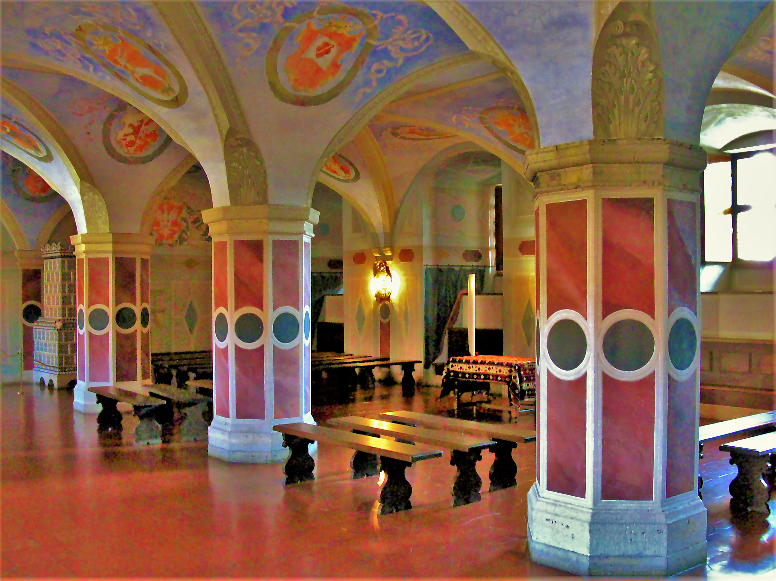 Chamber of Deputies of Polish Sejm (1570-1670) in Warsaw Royal Castle